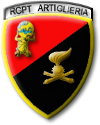 Coat of Arms of the Artillery Brigade, Italian Army